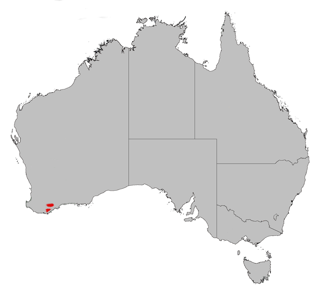 Distribution map of the Banksia brownii, source for distribution the WA Governemnt Department of Conservation and Land Mmanagement Update to include new population identified in the Hopetown region April 2006. revert to earlier version as WA Herbarium unable to confirm ID of plant as B.brownii the source has since emoved reference to the area.